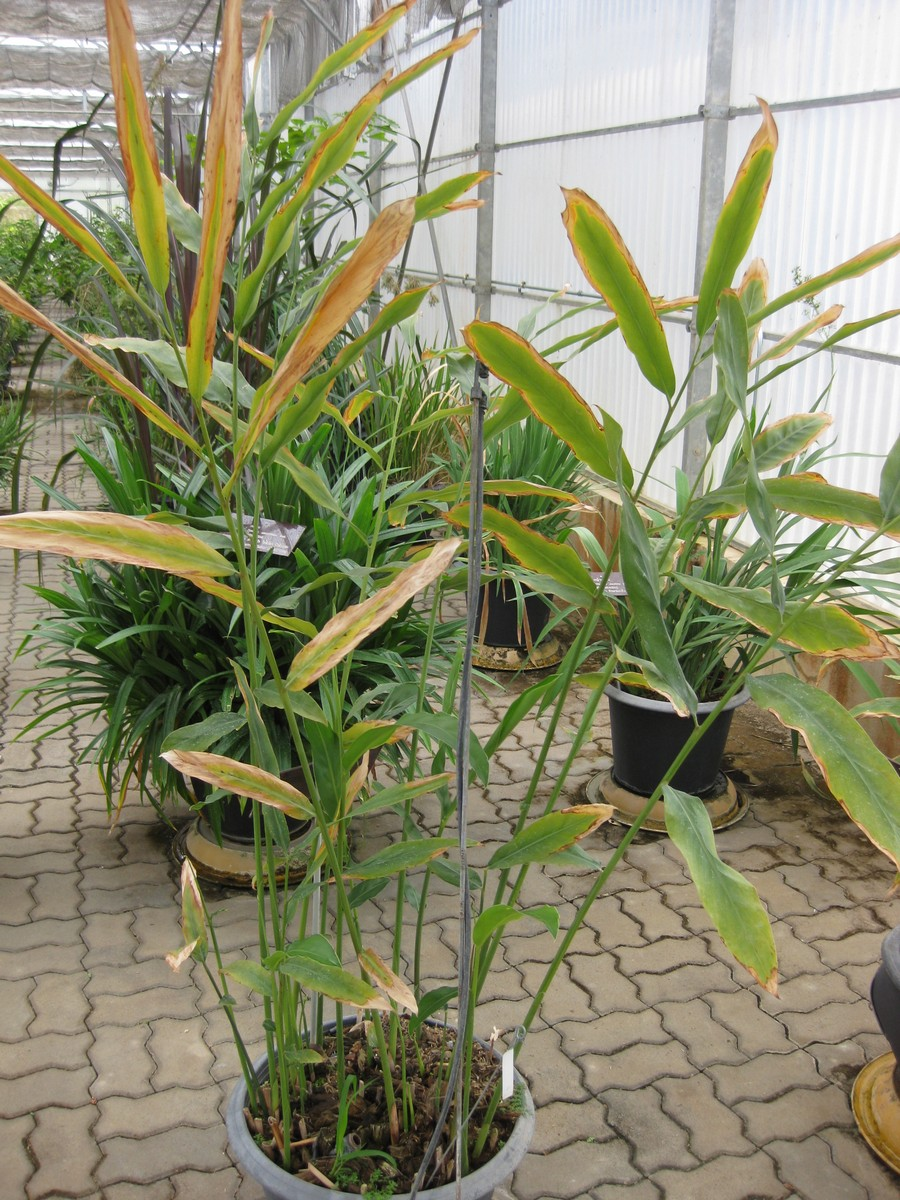 Photographed at the Queen Sirikit Botanic Garden (Chiang Mai Province, Thailand) in March